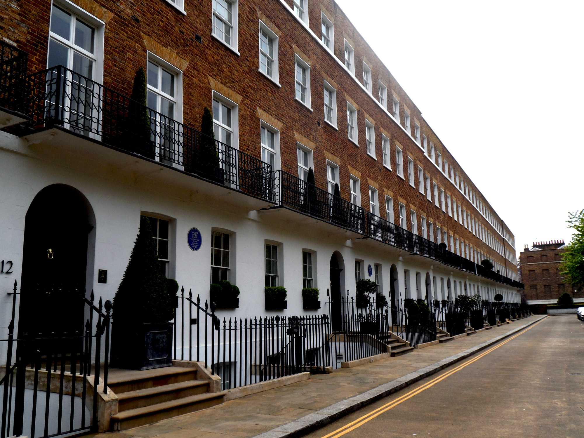 WALTER PATER 1839-1894 Aesthete and Writer lived and worked here 1885-1893